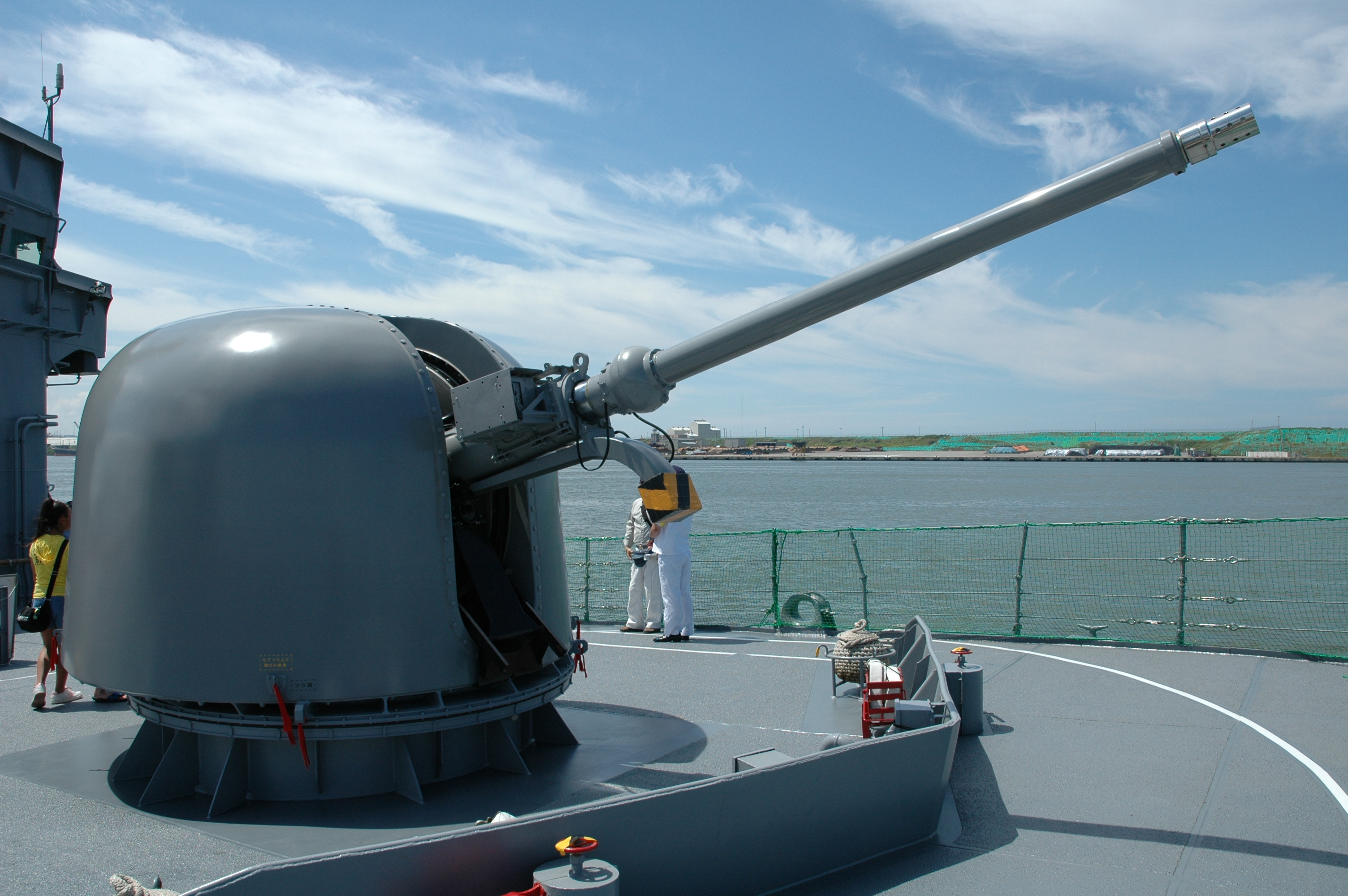 Oto Melara 76mm gun on JS Chikuma (DE-233).